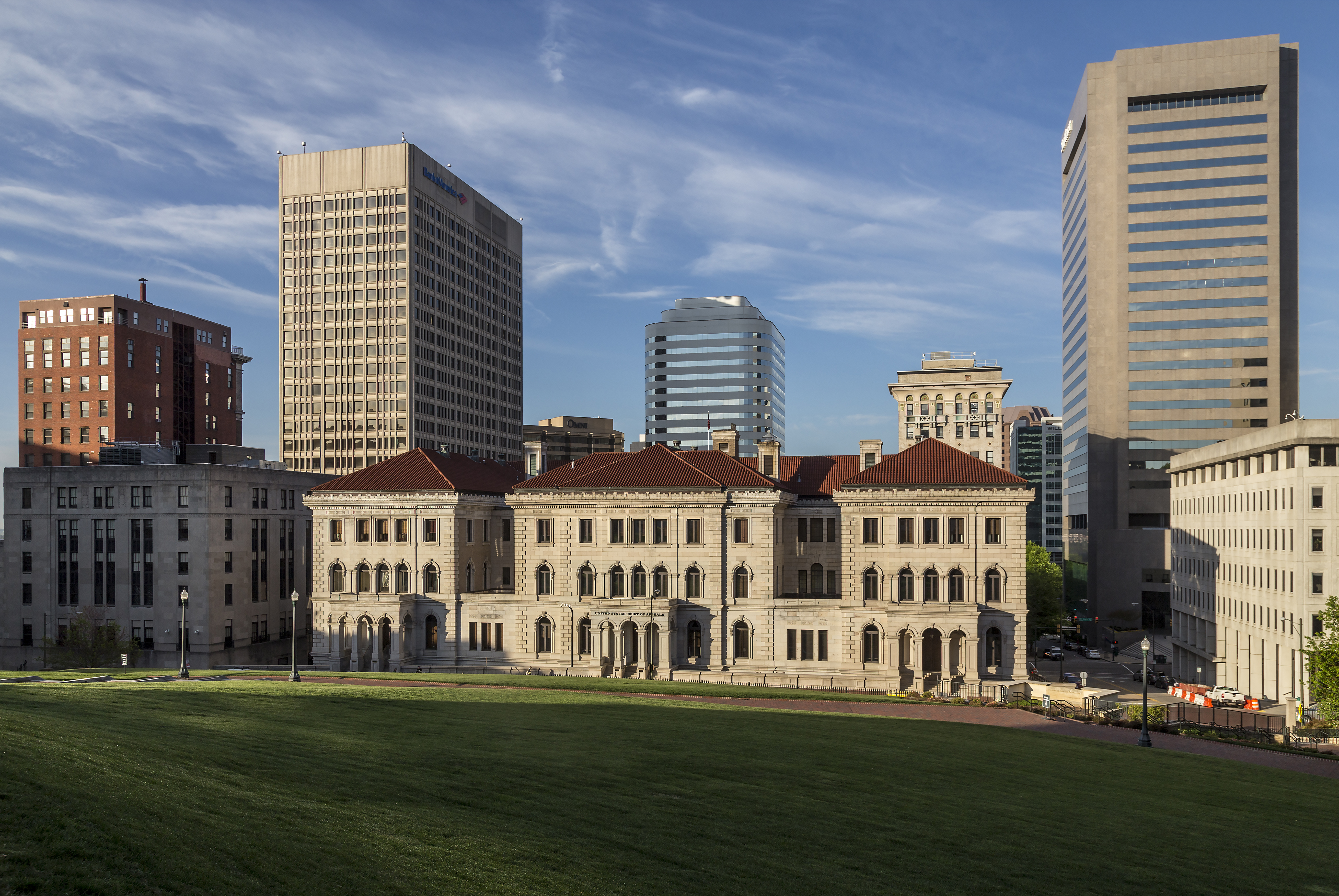 The Court of Federal Appeals (Lewis F. Powell Courthouse) and the skyline of Richmond, Virginia, in the early morning from the upper slope of the Virginia Capitol Grounds, Richmond, Virginia, USA